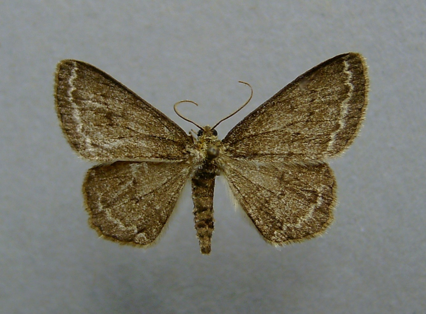 Ectropis crepuscularia, Berlin-Spandau, Germany